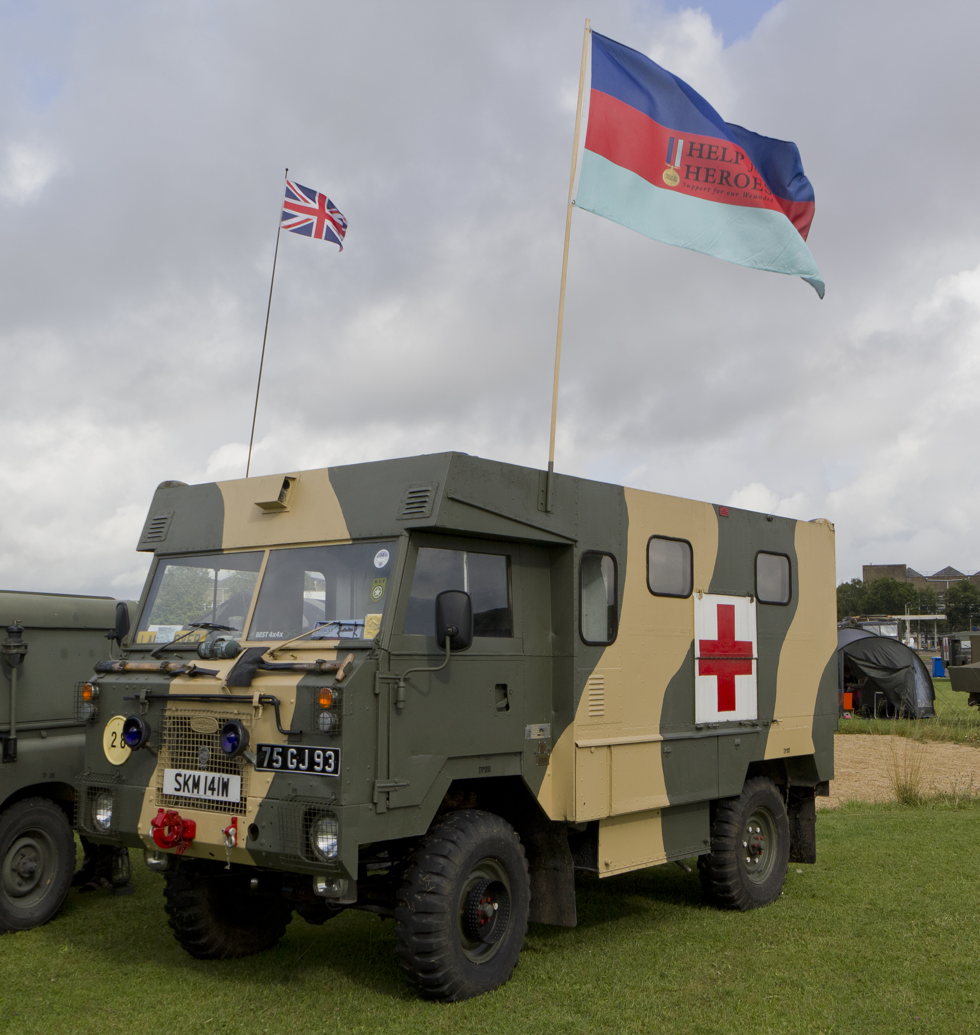 Gloucestershire Steam Extravaganza 2012 South Cerney Airfield Cirencester Friday 3rd August